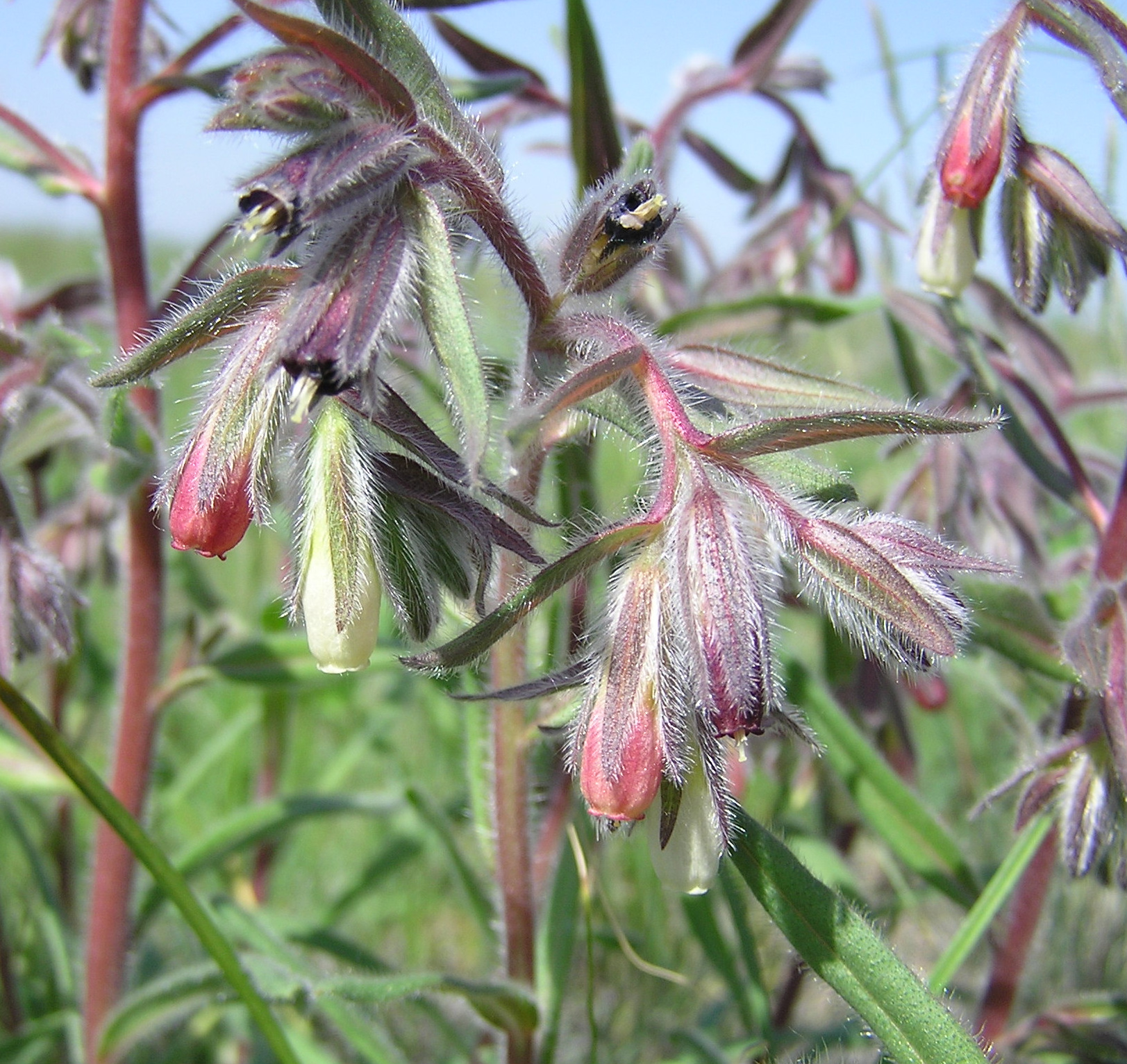 Onosma polychroma Klokov ex Popov. Habitat: steppe. Vicinity of Saratov city, Russia.